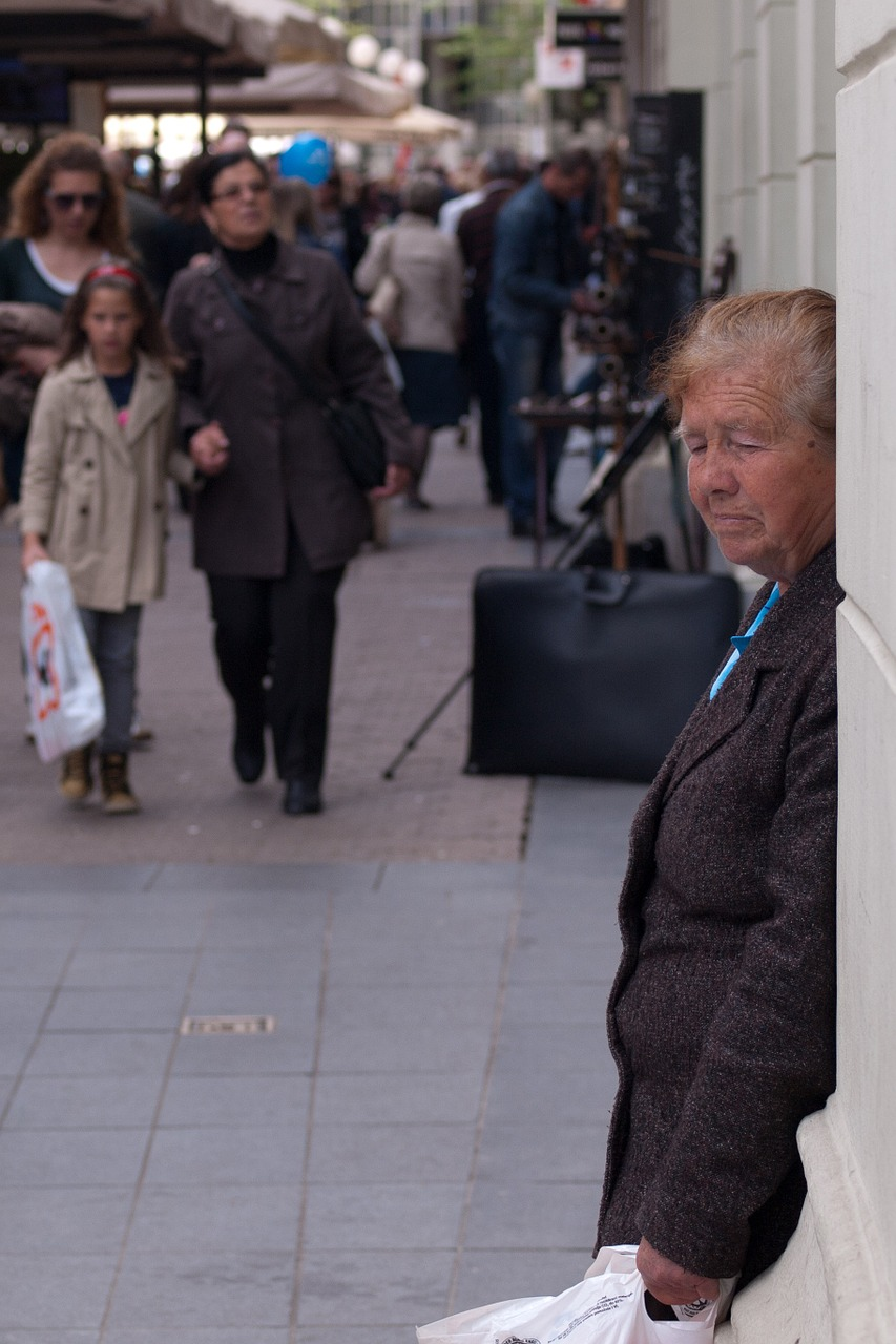 Lady in public experiencing social panic.